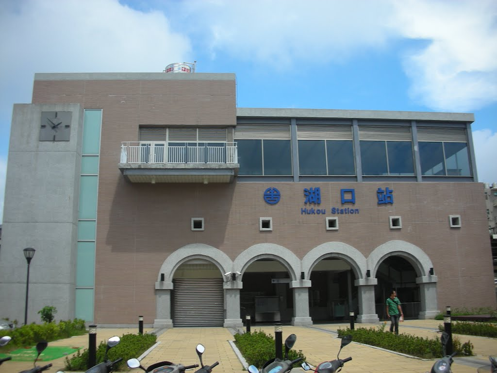 TRA Hukou Station.